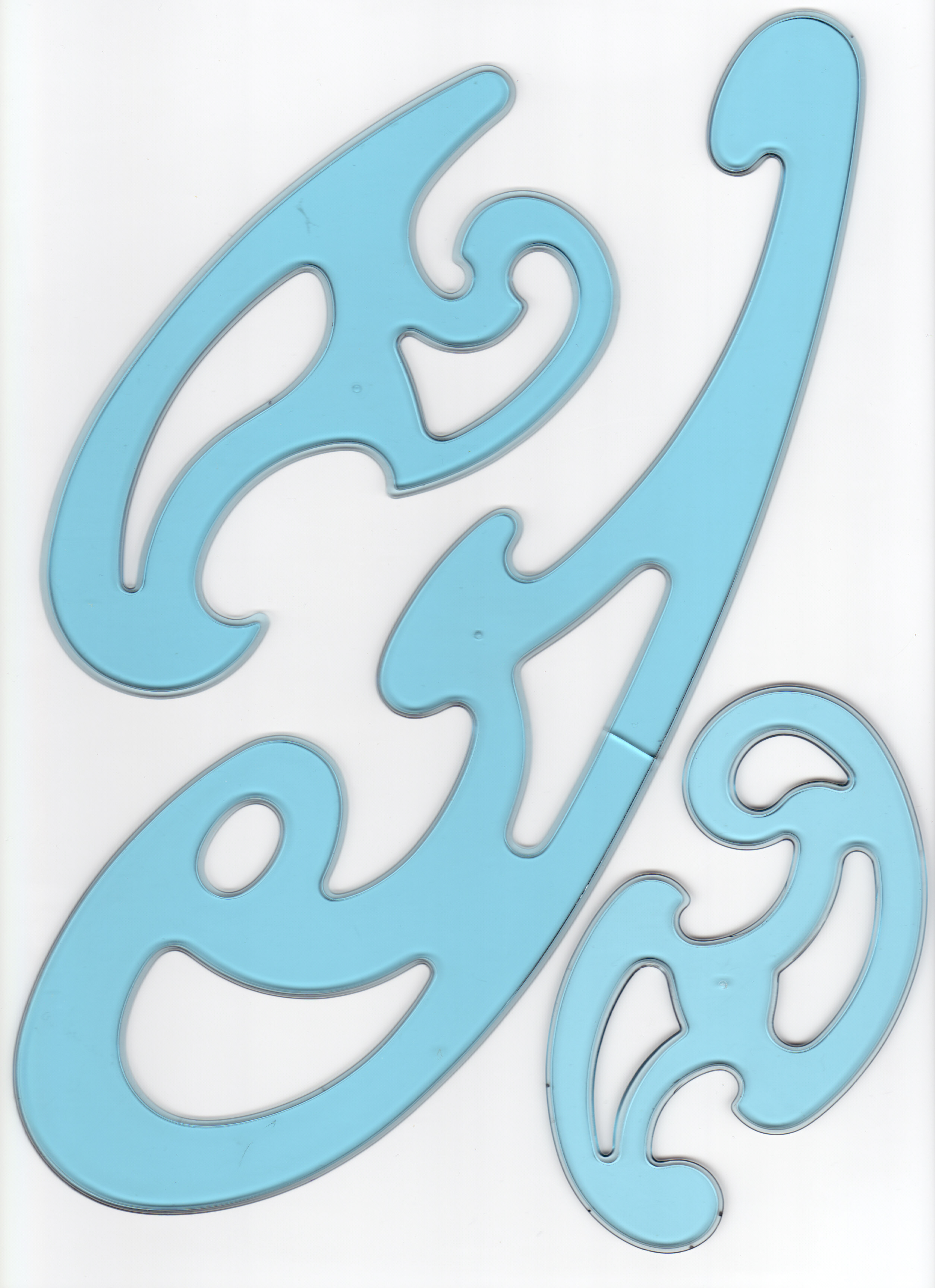 Scan of a set of blue plastic Burmester stencils, bought at Migros in Switzerland, originally imported from Italy Related lable